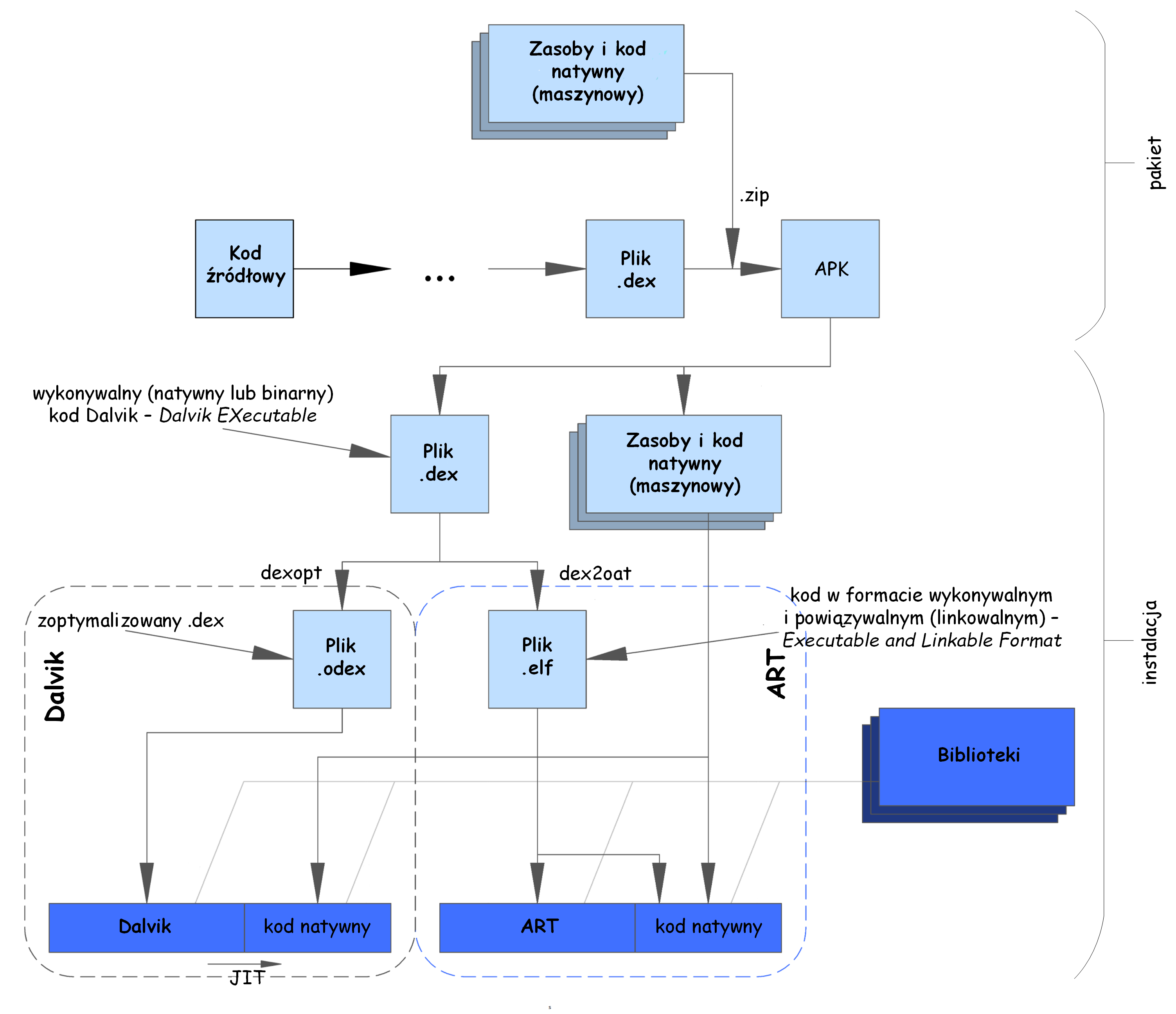 Derivative work from - polish translation